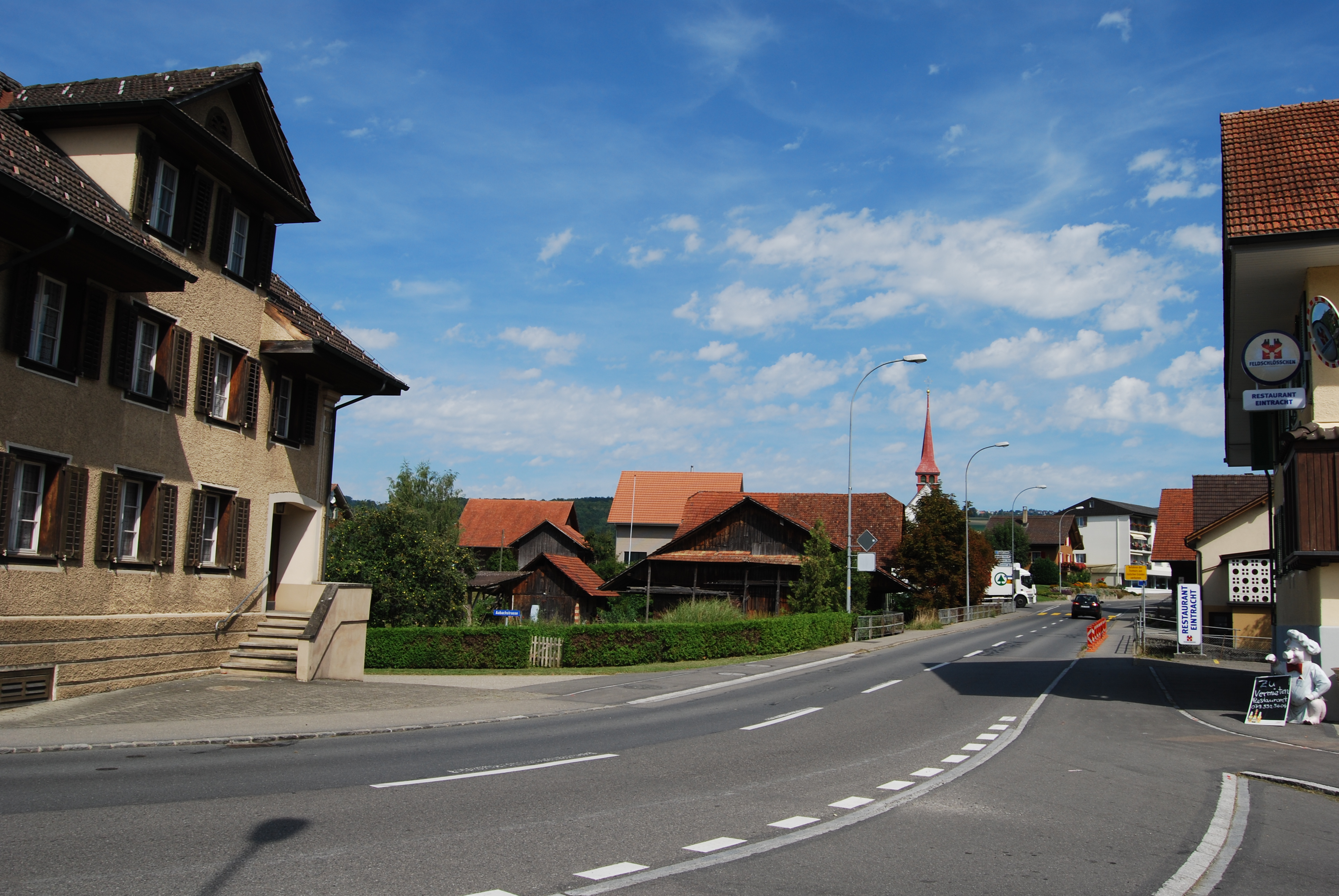 Ermensee, canton of Lucerne, SwitzerlandEsperanto: Ermensee, Kantono Lucerno, Svislando